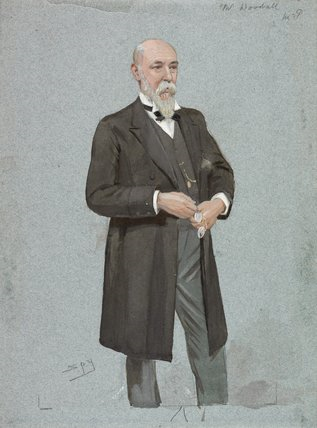 A caricature of Mr William Woodall MP (1832-1901) by 'Spy', captioned 'Hanley'.